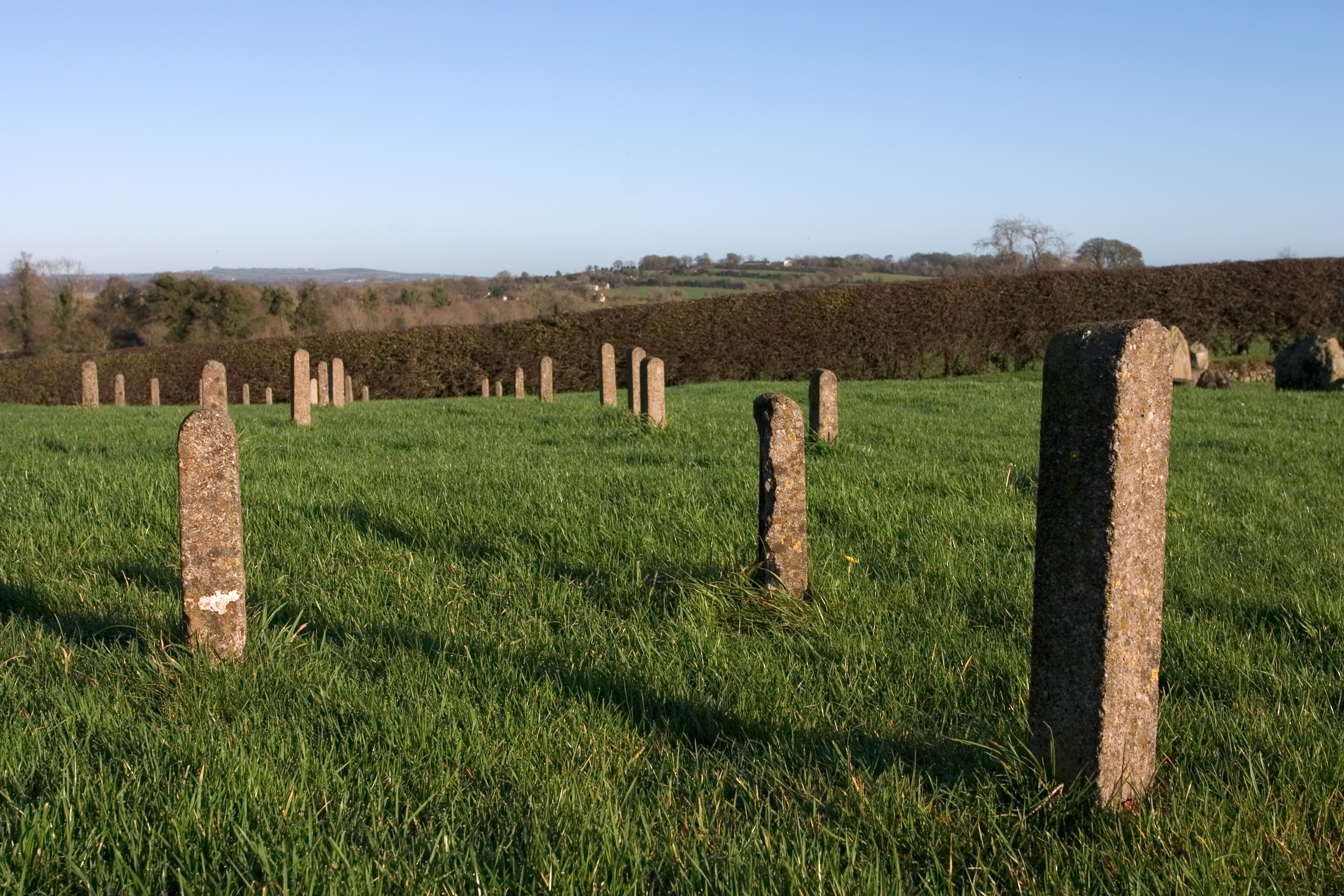 Small monuments at Newgrange. County Meath, Ireland.